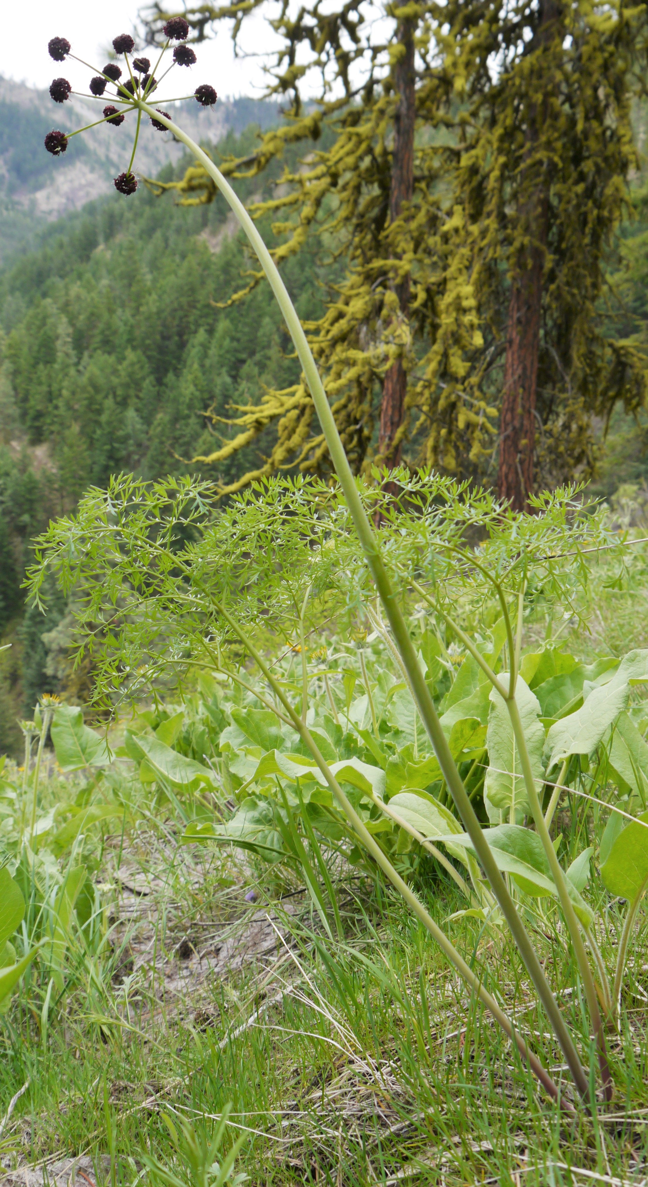 Lomatium dissectum var. dissectum flowering near Cashmere, Chelan County Washington